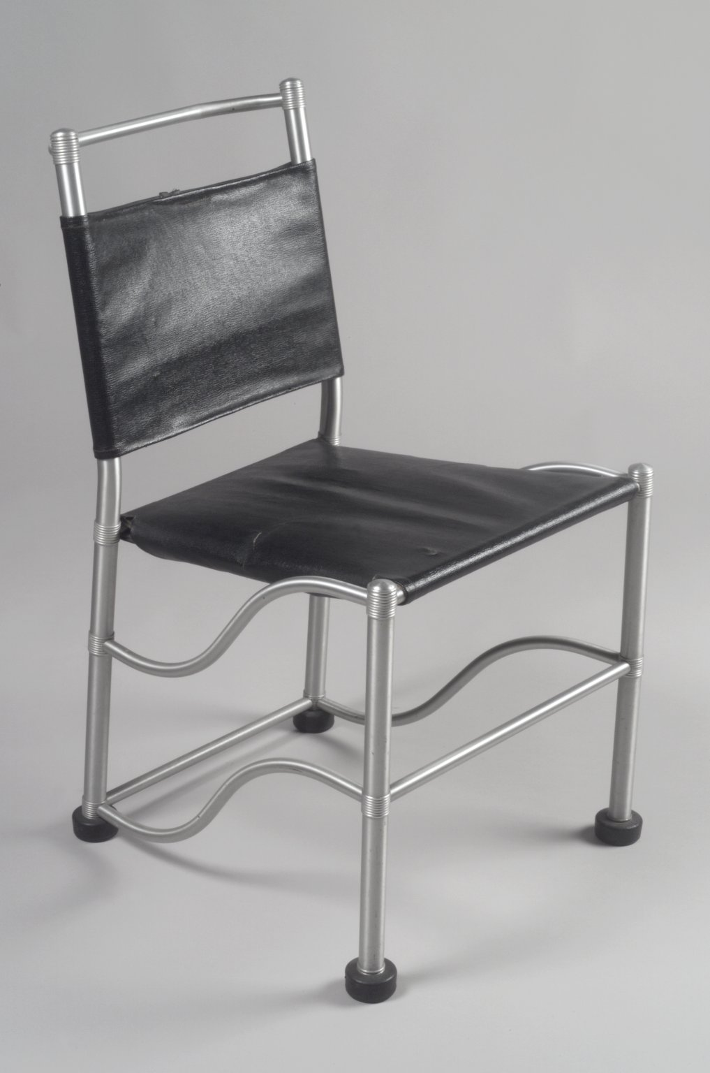 Warren McArthur (1885-1961). Side Chair, ca. 1935. Aluminum, leatherette, rubber, 31 3/16 x 18 1/2 x 23 1/2in. (79.2 x 47 x 59.7cm). Brooklyn Museum, Modernism Benefit Fund, 1990.95. Creative Commons-BY (Photo: Brooklyn Museum, 1990.95.jpg)